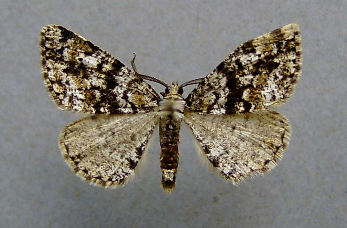 Fagivorina arenaria, Kapfenstein, Styria, Austria